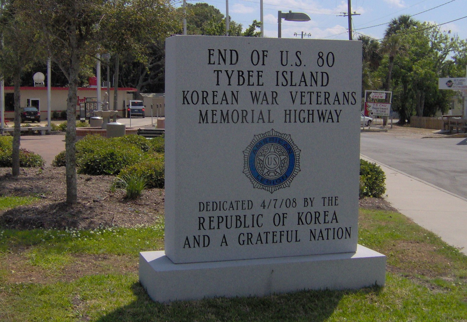 Monument marking the end of U.S. Highway 80 at the junction of Butler Avenue and Tybrisa Street on Tybee Island in Georgia, in the southeastern United States. US-80 once spanned the U.S. from coast-to-coast.